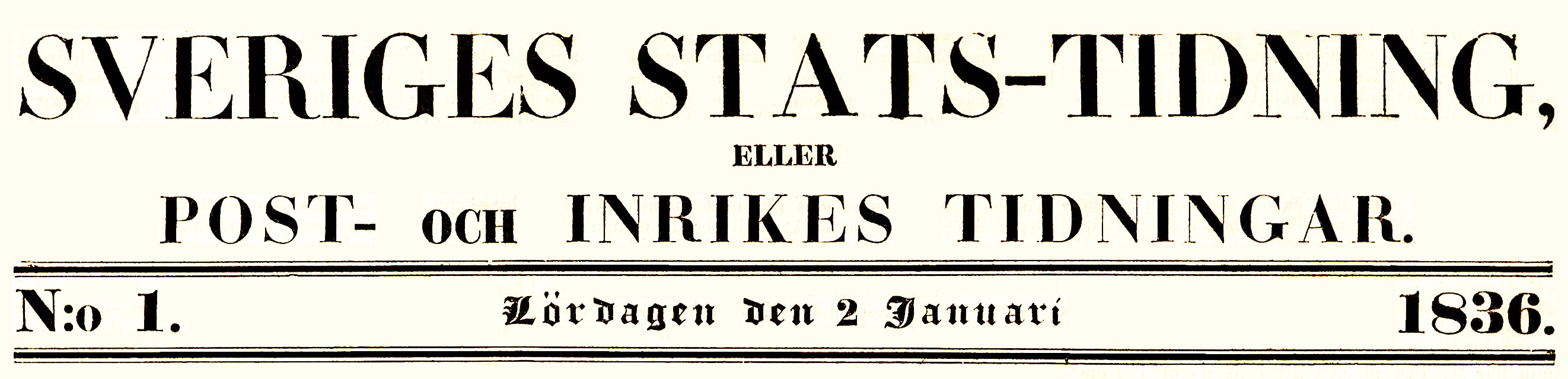 Logotype of Post- och Inrikes Tidningar, as it appeared in 1835